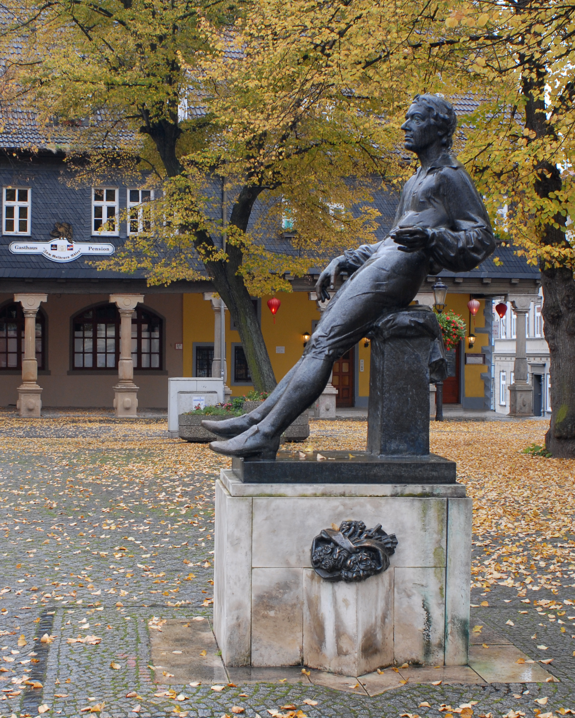 The monument of the young Johann Sebastian Bach in Arnstadt, Thuringia, inaugurated on the occasion of his 300th birthday.